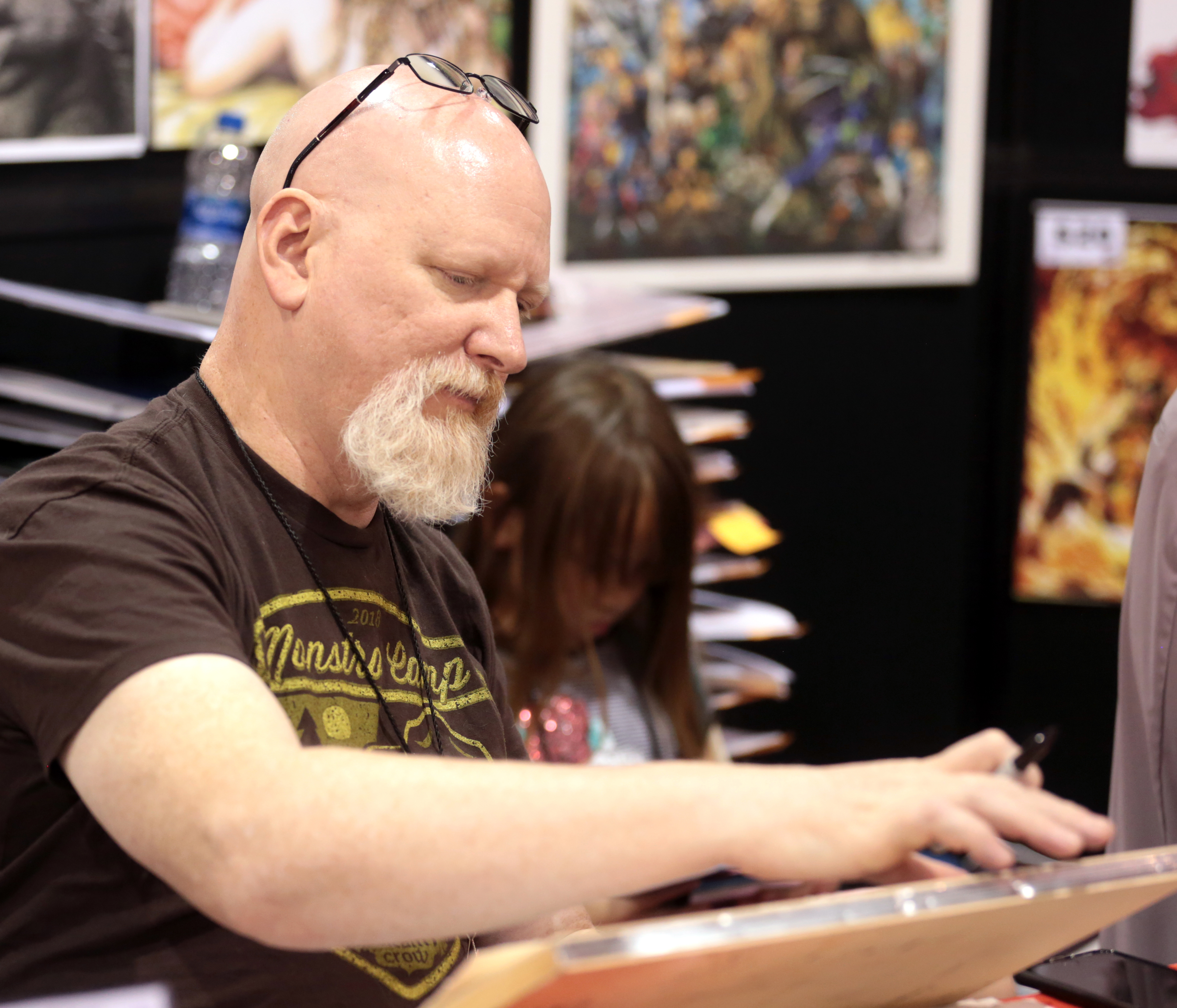 Art Adams speaking at the 2018 Phoenix Comic Fest in Phoenix, Arizona.